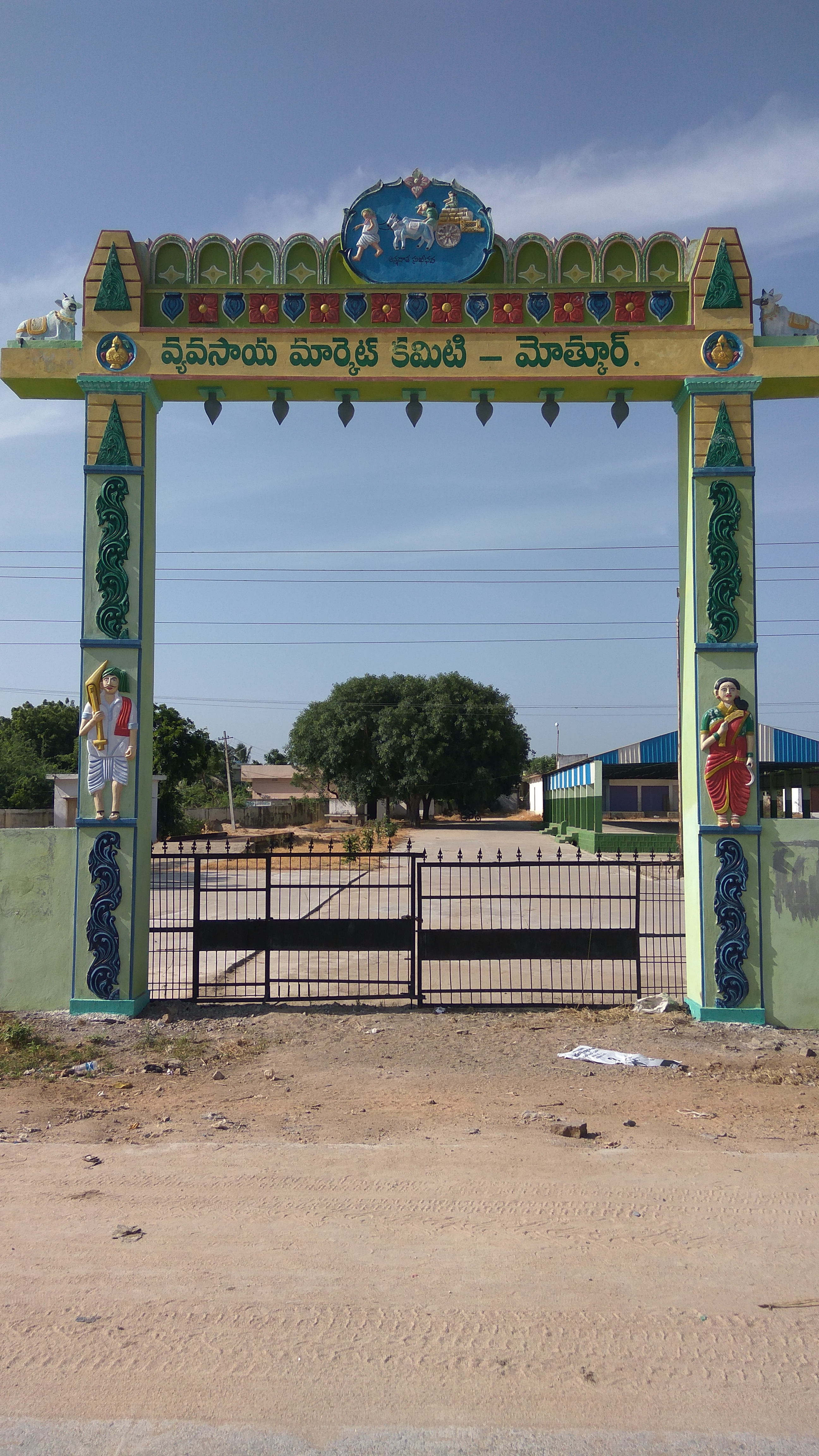 Market Arch in Mothkur